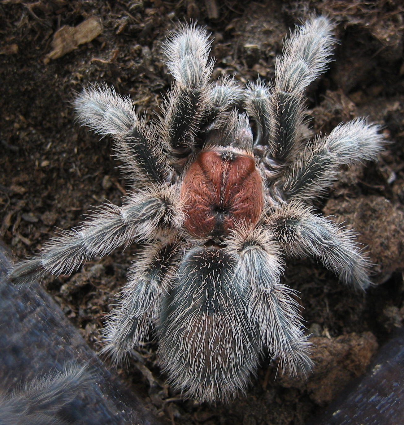 Grammostola rosea (Chilean rose)